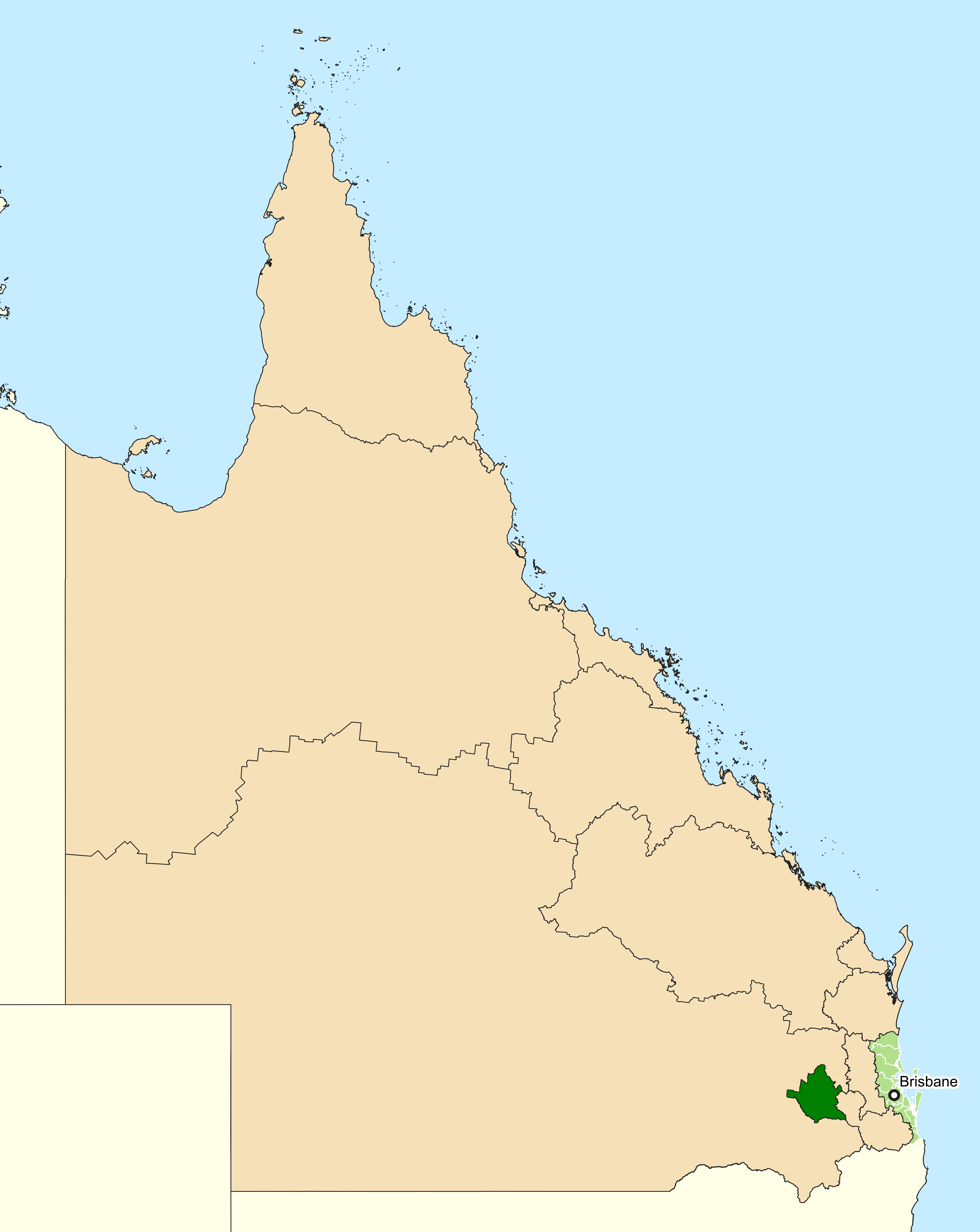 Location of the Australian federal electoral division of Groom (dark green) in Queensland as of the 2019 Australian federal election. Incorporates or developed using Administrative Boundaries ©PSMA Australia Limited licensed by the Commonwealth of Australia under Creative Commons Attribution 4.0 International licence (CC BY 4.0).